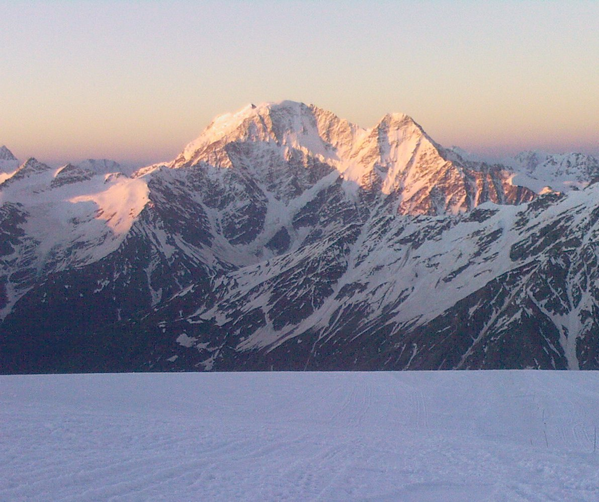 Donguzorun